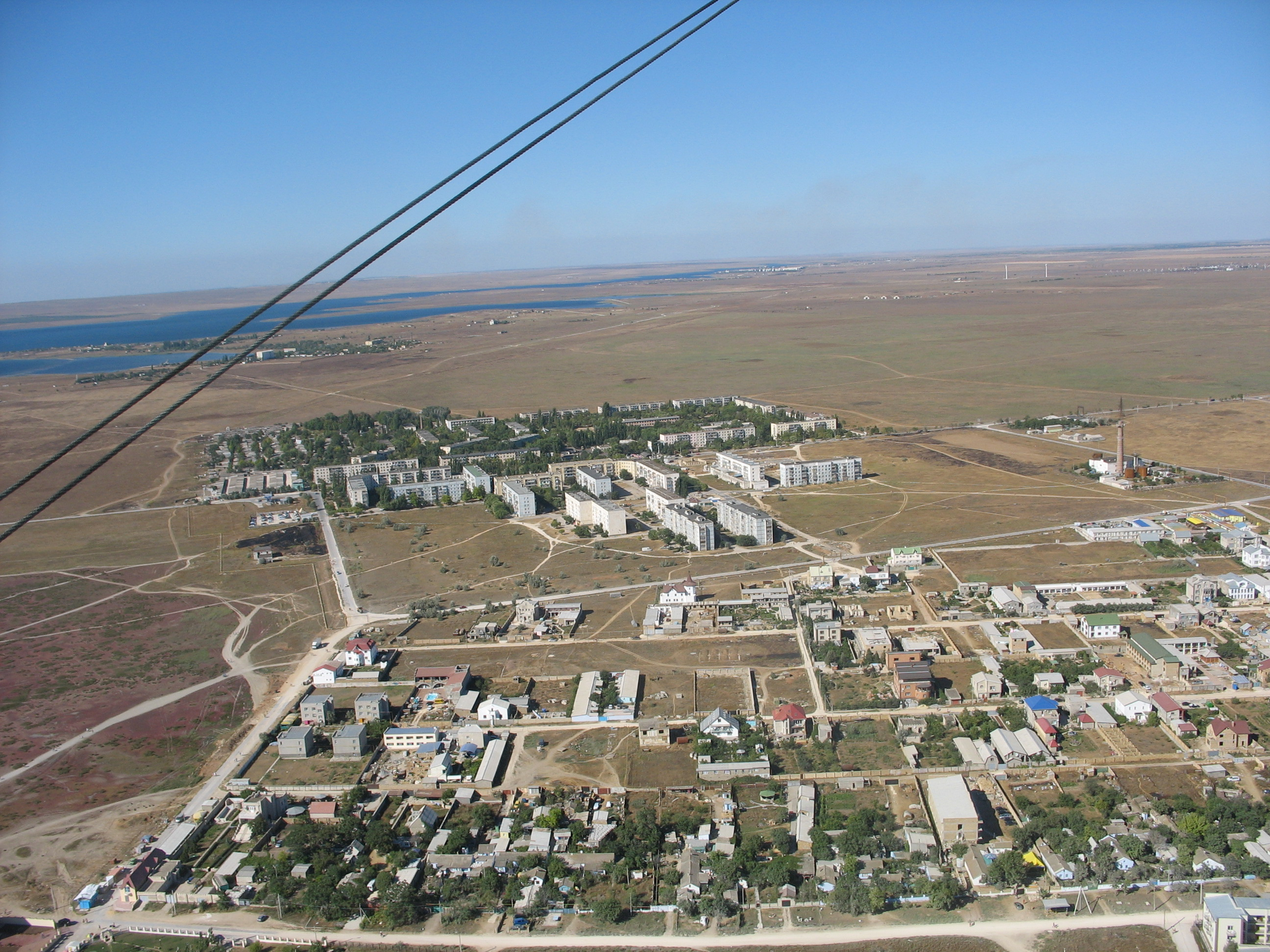 Mirny(Crimea)